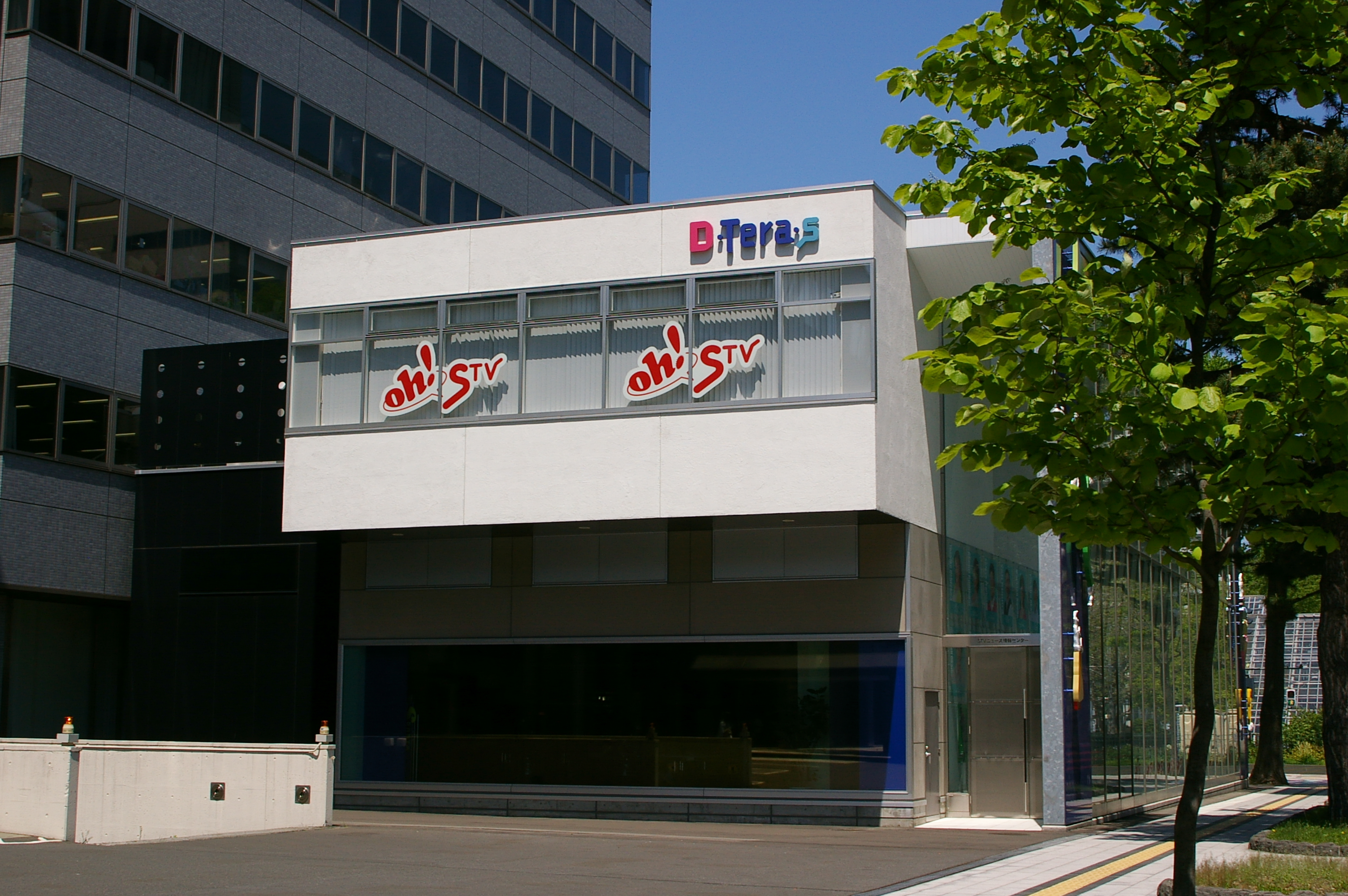 Photograph of STV News and Information Center "D-Tera-s", the studio building for news and information program of Sapporo Television Broadcasting Company, in Chuo-ku, Sapporo, Hokkaido, Japan.